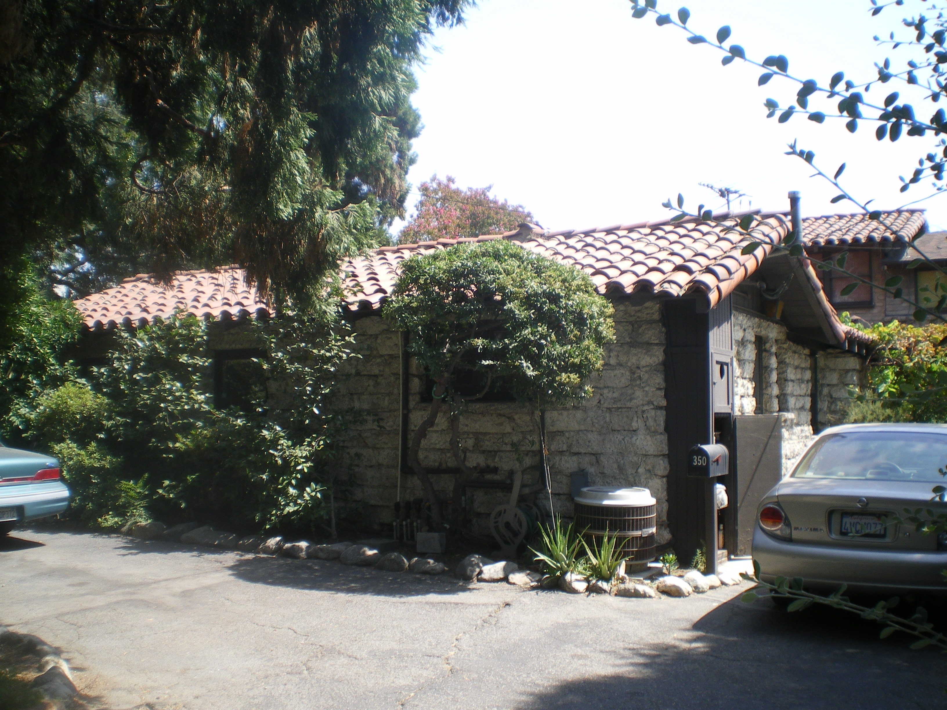 House at 350 South Mills Avenue, Russian Village District, Claremont, California